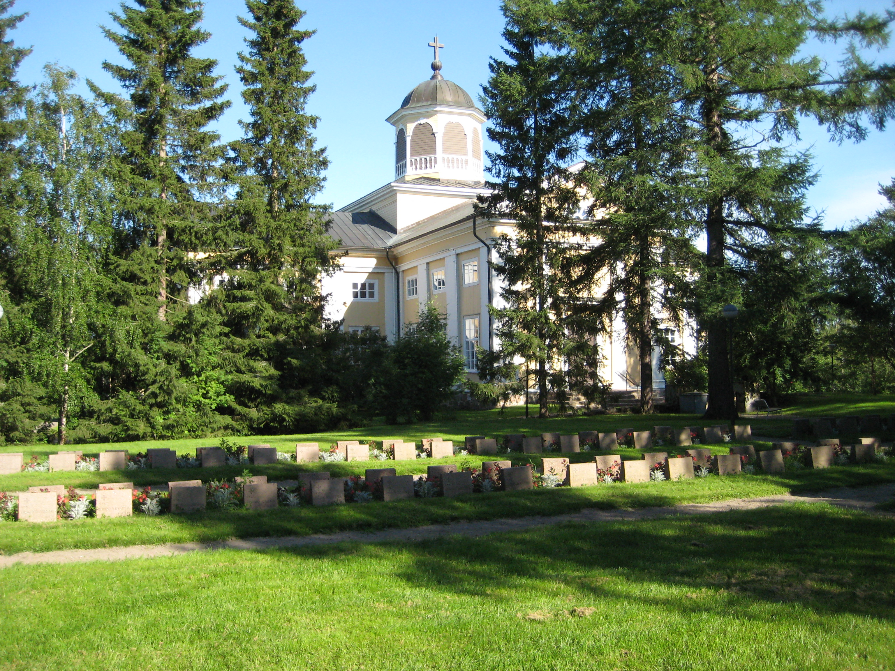 The military cemetary of the Second World War at the Liminka old cemetary, and Liminka Church, located in Liminka, Finland.